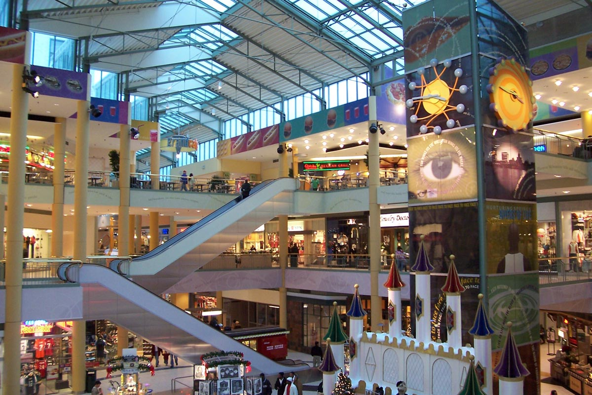 Copyright © 2005 Sulfur Main atrium of the Shops of Grand Avenue, an urban shopping mall which spans three city blocks in the heart of downtown Milwaukee, Wisconsin.